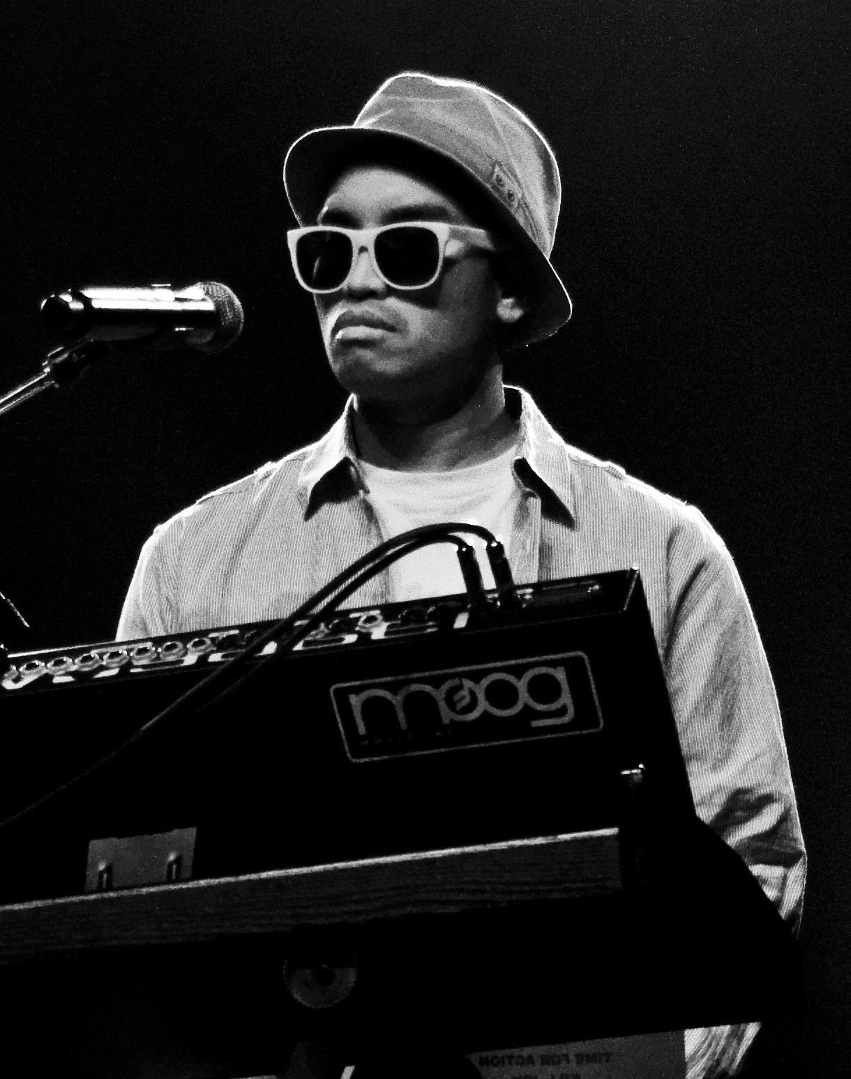 Chad Hugo performing with N.E.R.D. at The Warfield in San Francisco in July 2009.